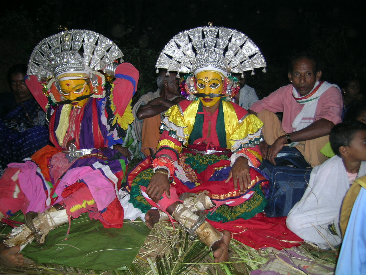 Bhootha Kola, held in the local shrine since ages